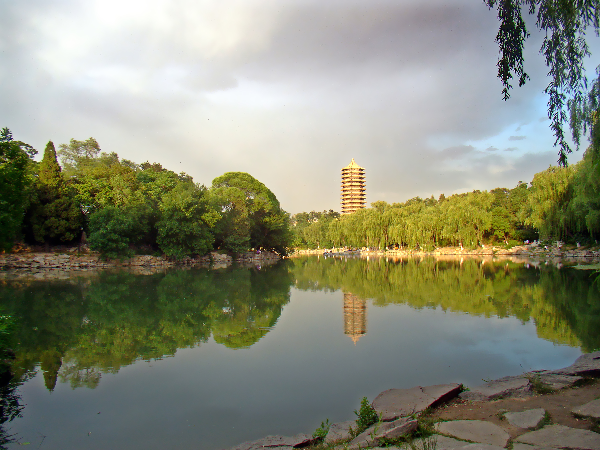 Weiming Lake in Peking University. Original 3 photos were pictured by Sony H5. HDR